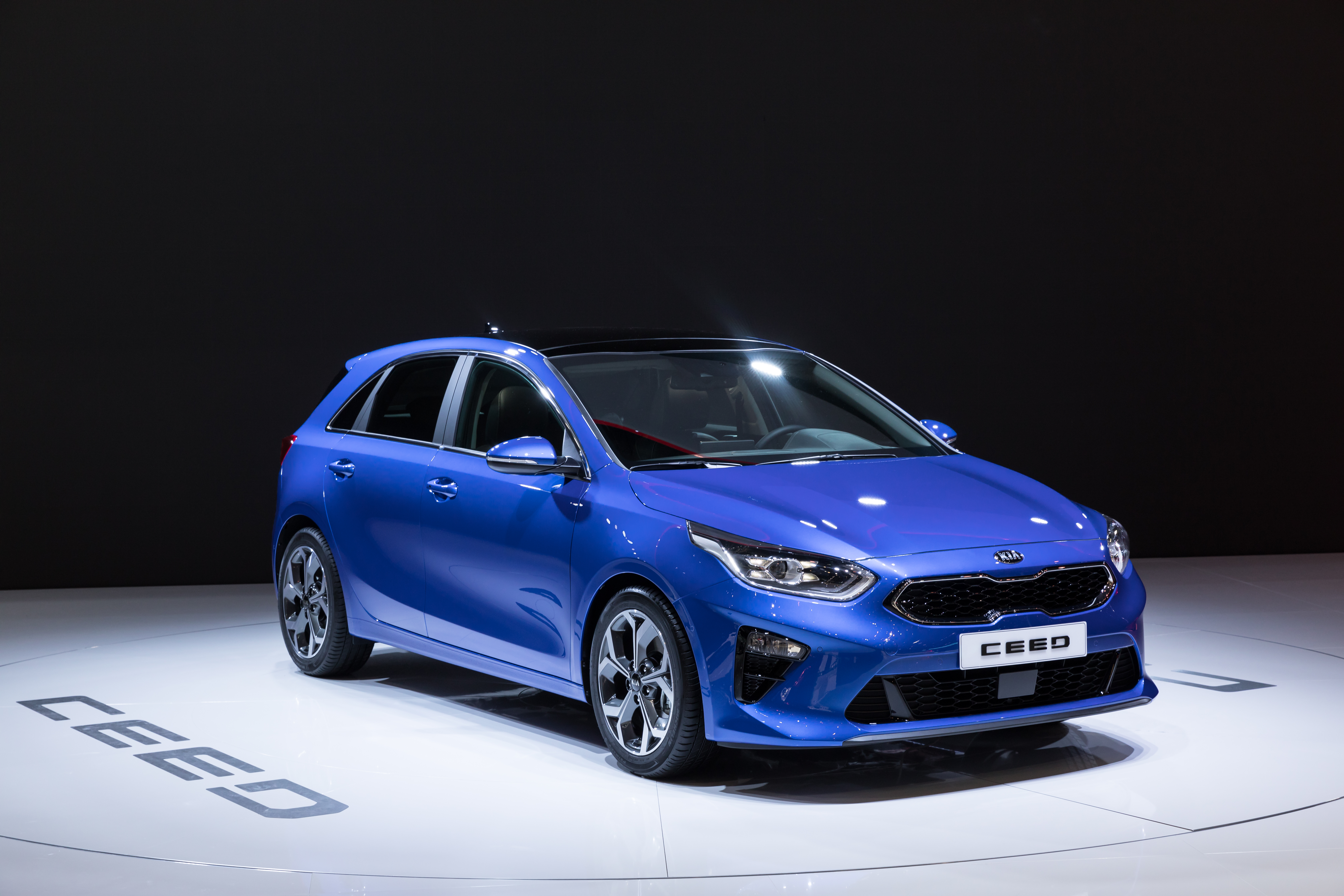 Kia Ceed, Geneva International Motor Show 2018